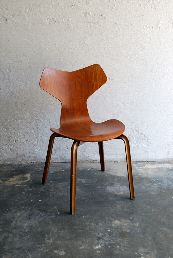 Arne Jacobsen Model 3130 from 1957. Was named Grand Prix after it won the Grand Prix at Triennale di Milano.